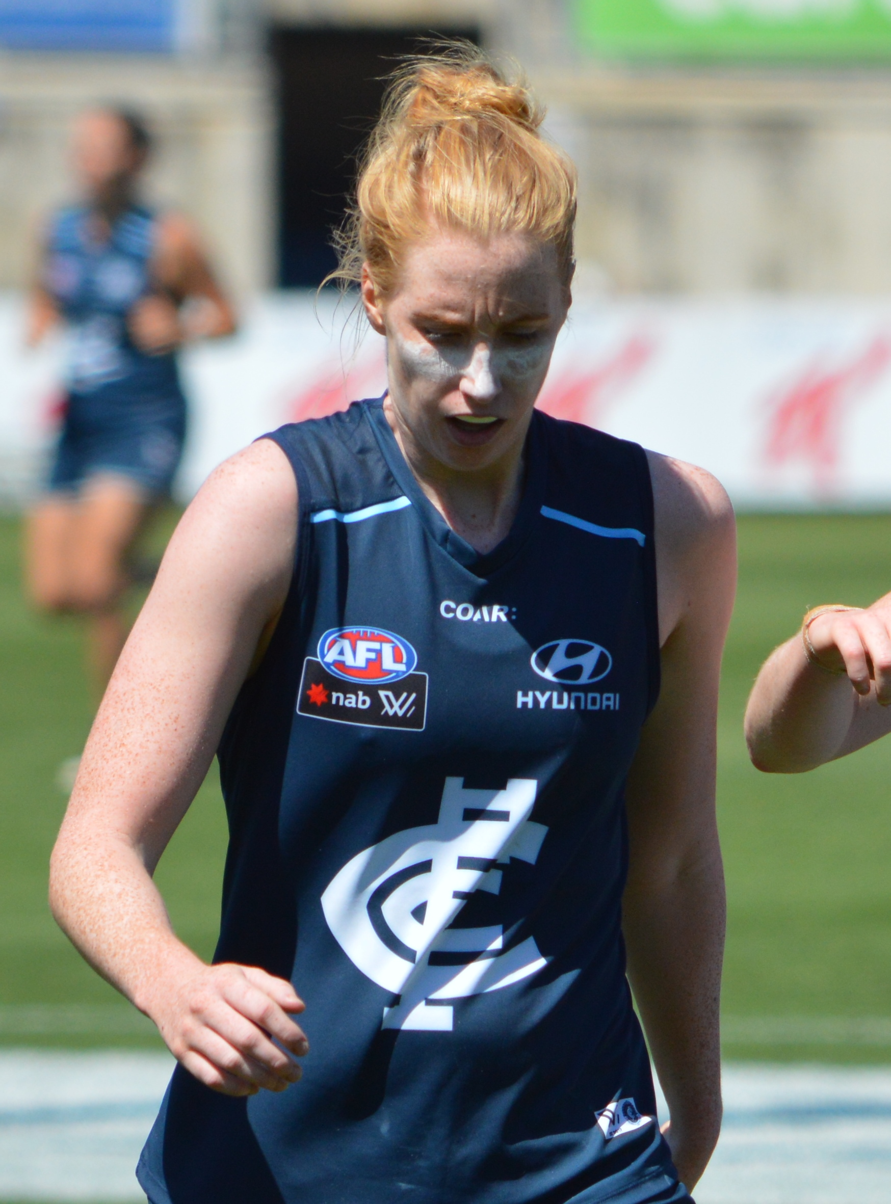 Kate Shierlaw in round 5 of the 2017 AFLW season